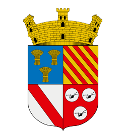 heraldic figures of the municipality of Auneau-Bleury-Saint-Symphorien.